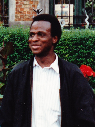 Emmanuel_Dungia_Brussels_1993 07 20